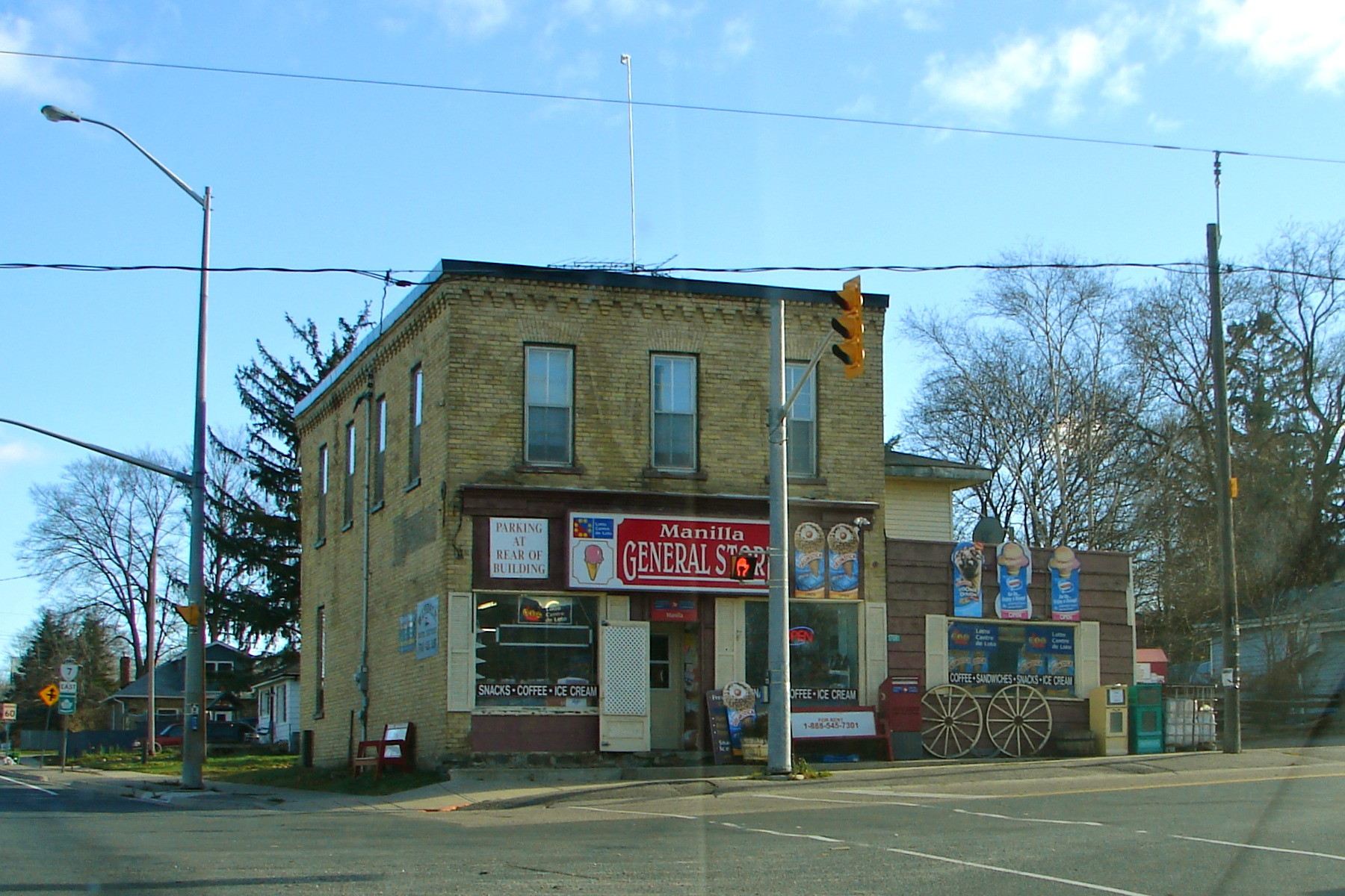 Manilla (City of Kawartha Lakes), Ontario, Canada